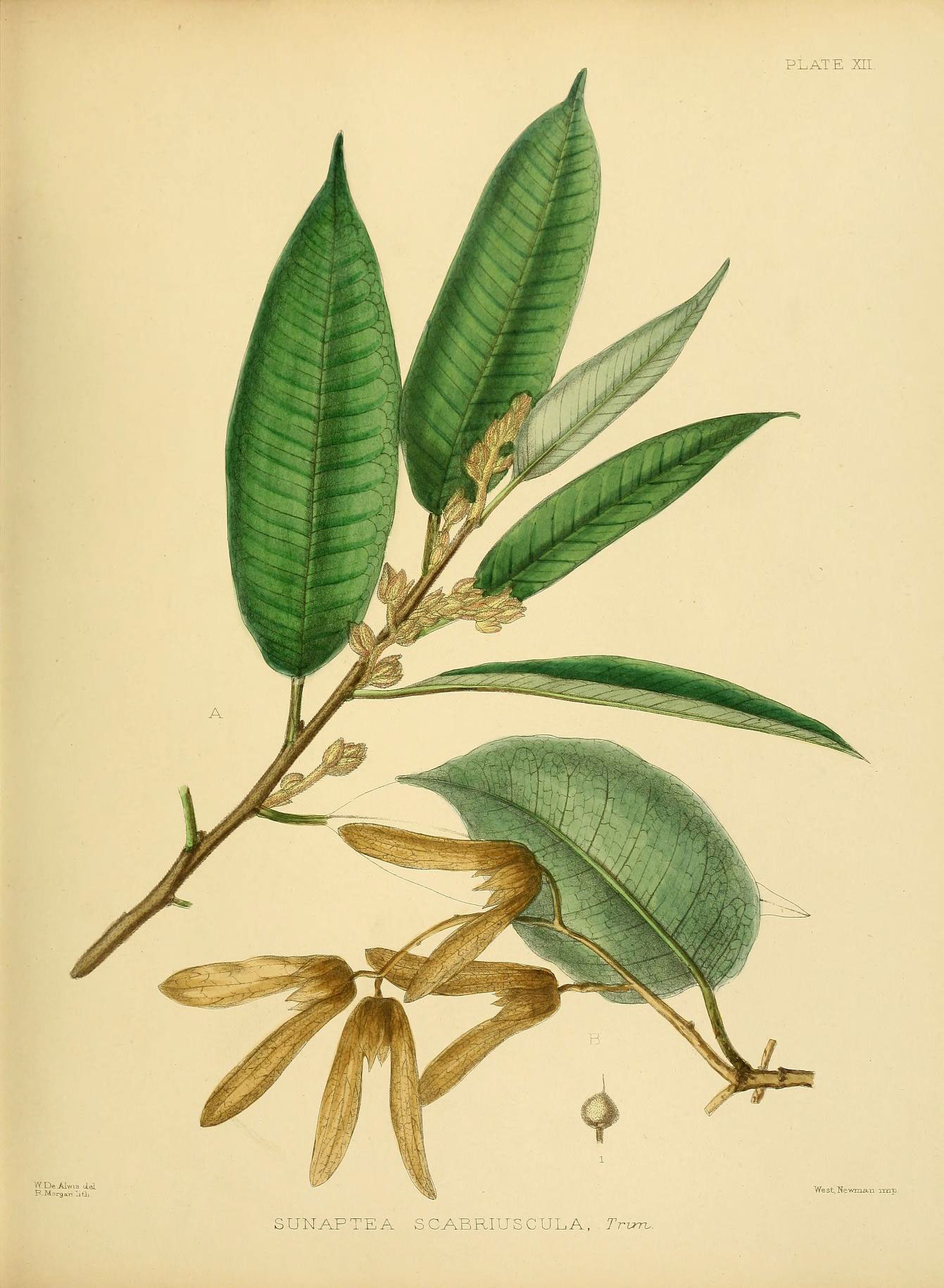 PLATE XII. VY De Al„ R. Morga.T. West, Newman imp SUNAPTEA SCABRIUSCULA, Trvrru.